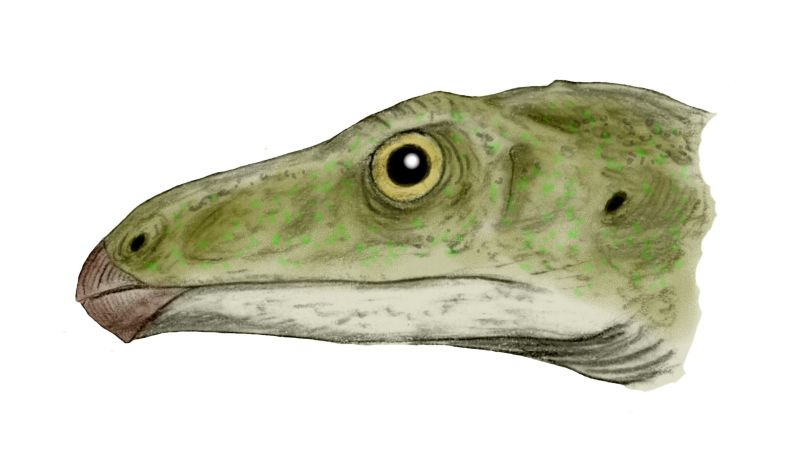 Head of Shuvosaurus inexpectatus, after skull reconstruction by J. Lehane et al. (2006), pencil drawing